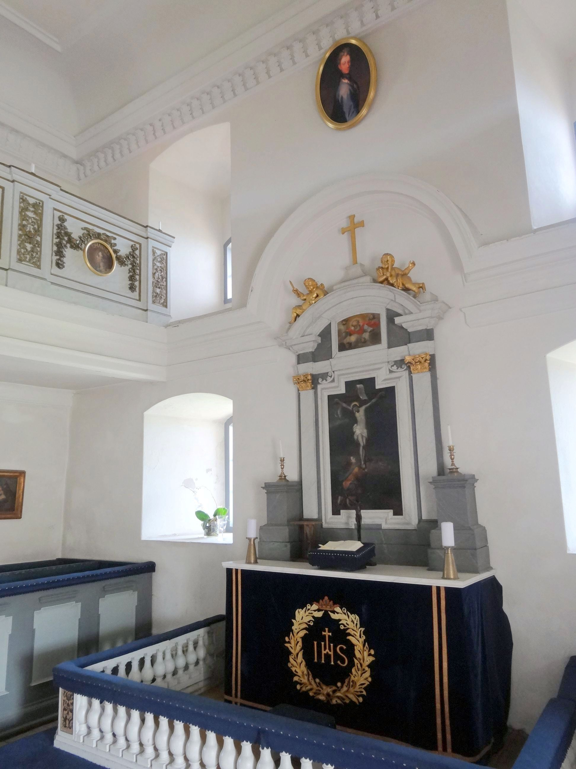 Insideview of the church at nya Älvsborg fortress, Sweden.